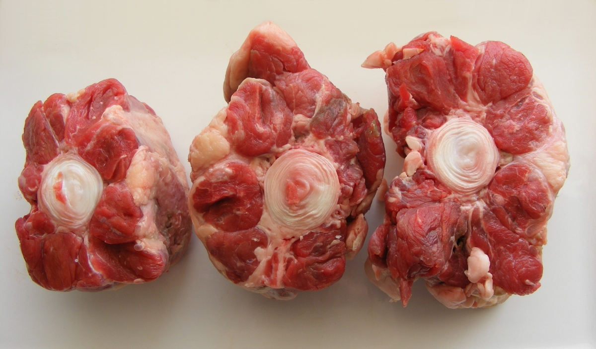 Oxtail for my version of Heston Blumenthal's Spaghetti Bolognese